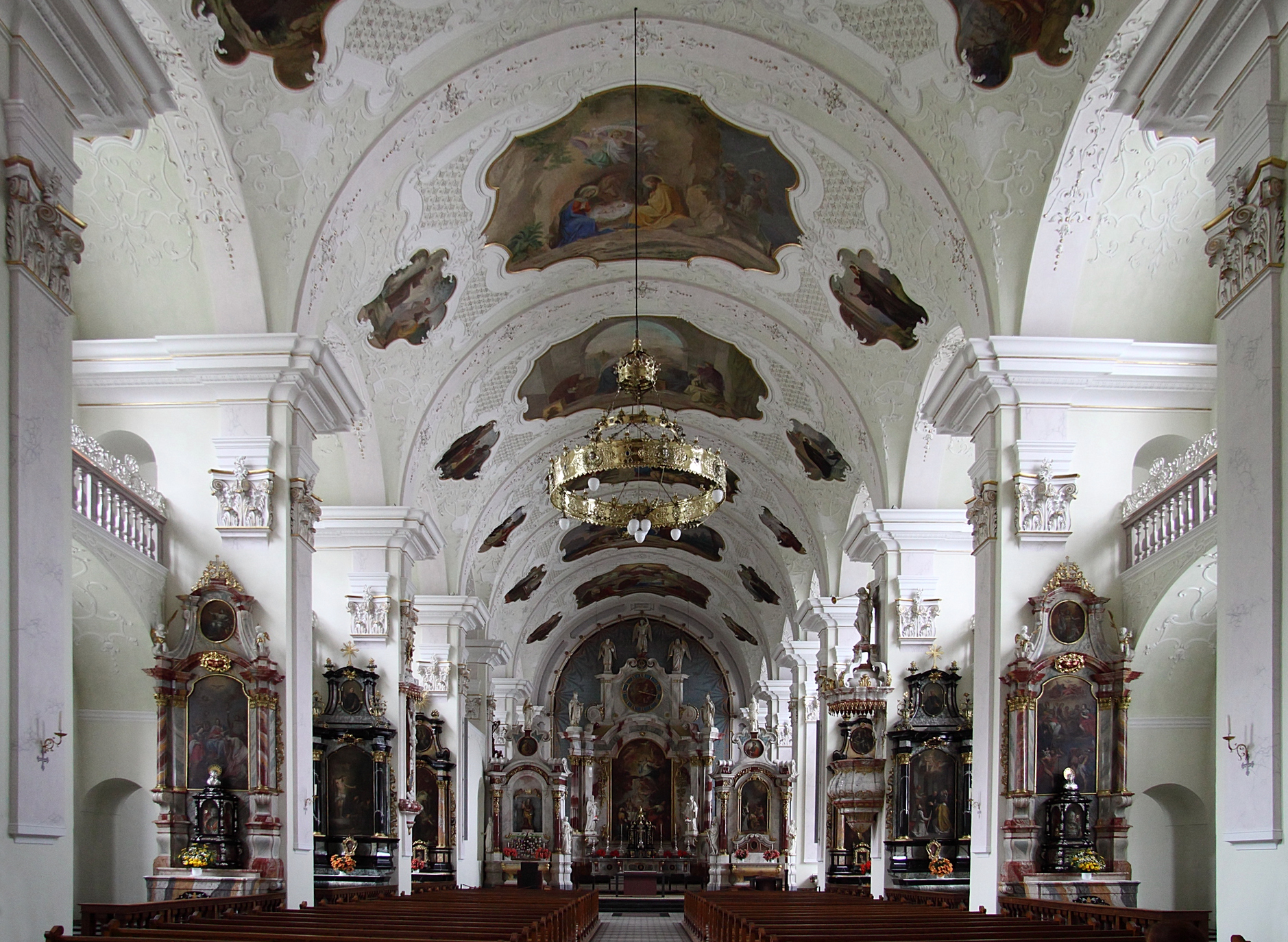 Engelberg, Switzerland, interior of the monastery church